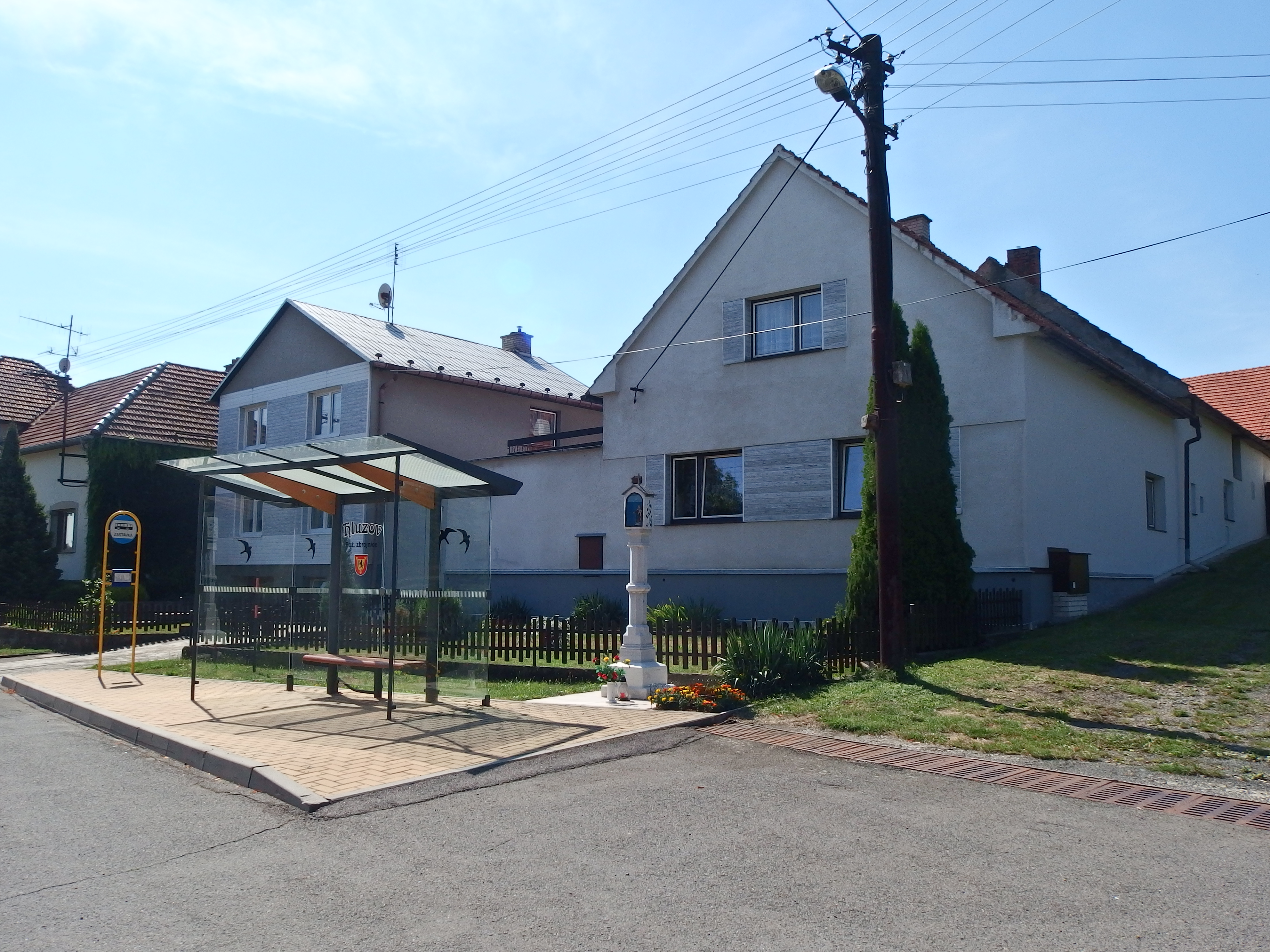 Černotín, Přerov District, Czech Republic, part Hluzov.